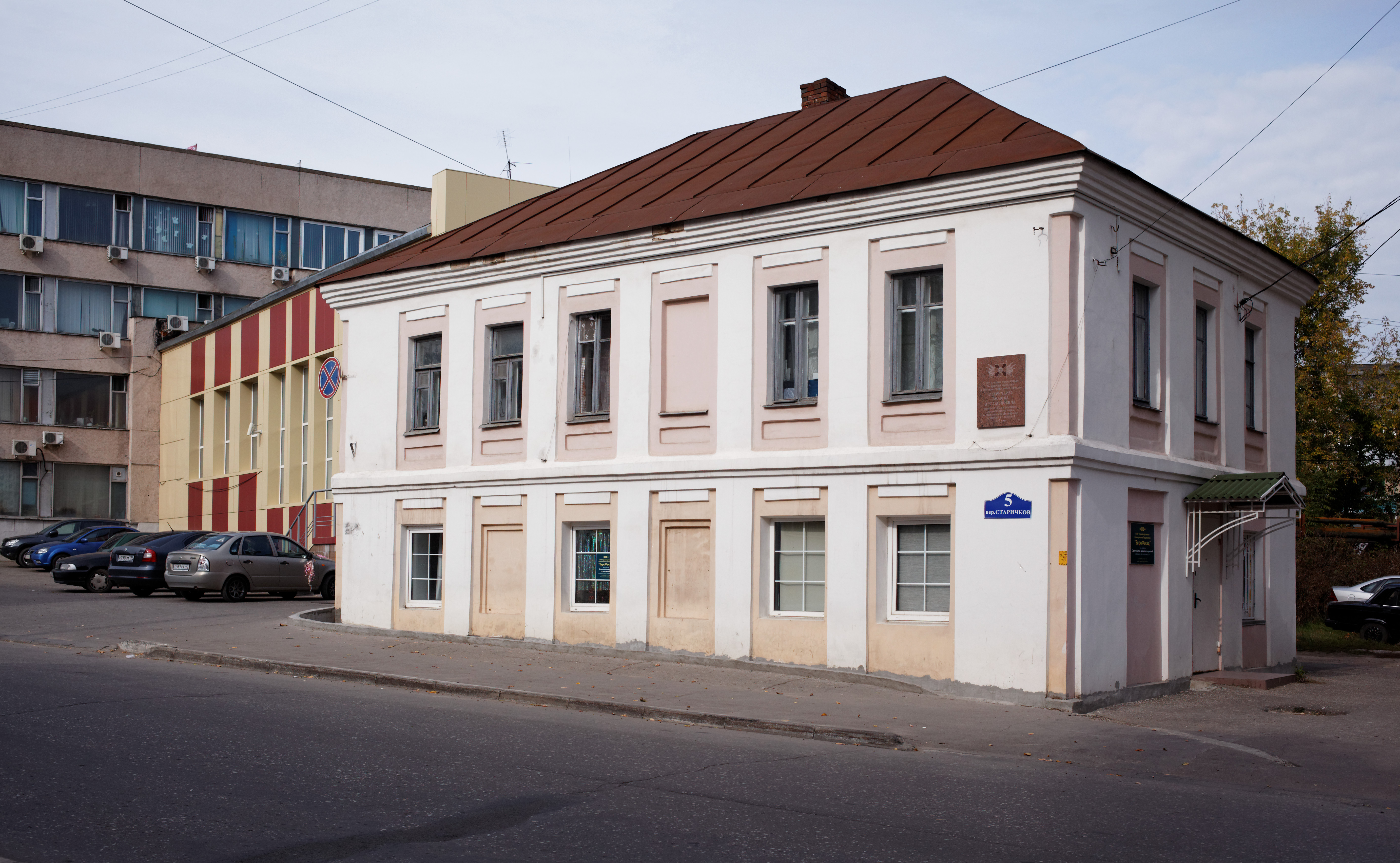 The Starichkov House, Kaluga